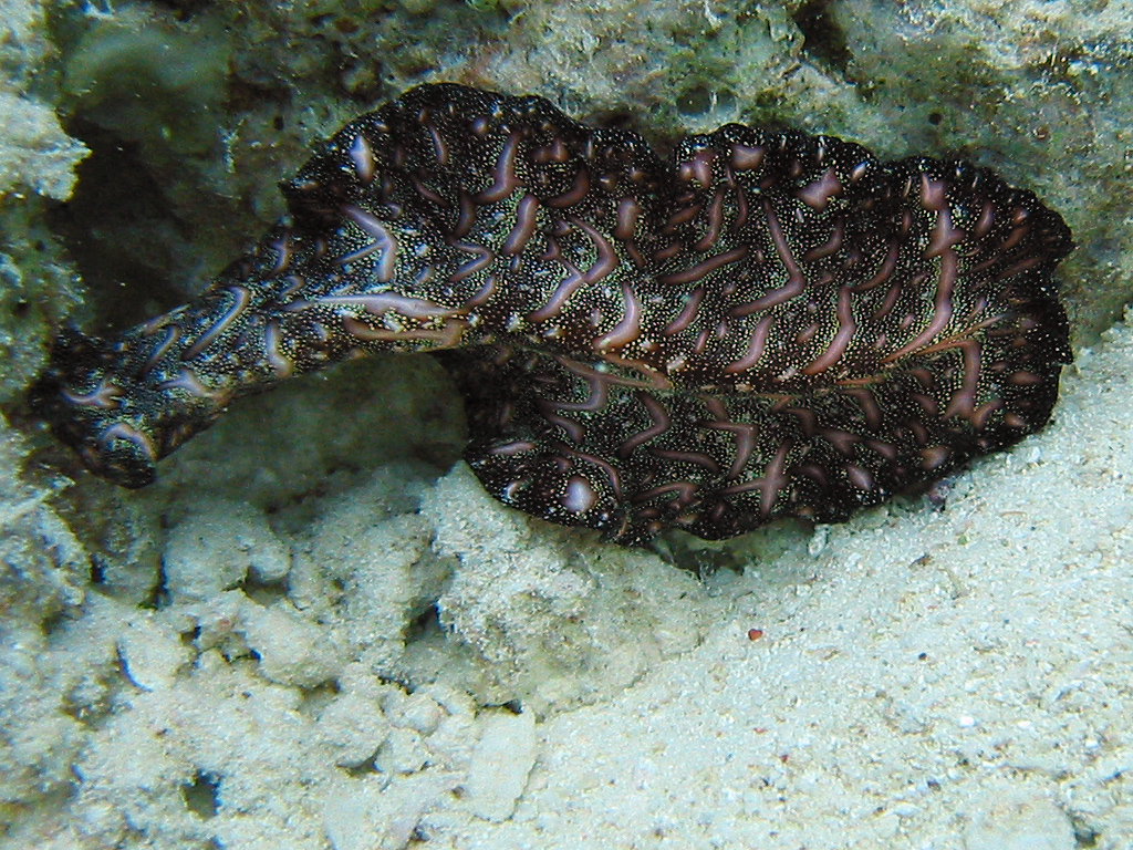 Bedford's Flatworm (Pseudobiceros bedfordi) in Fihalhohi, Maldives.